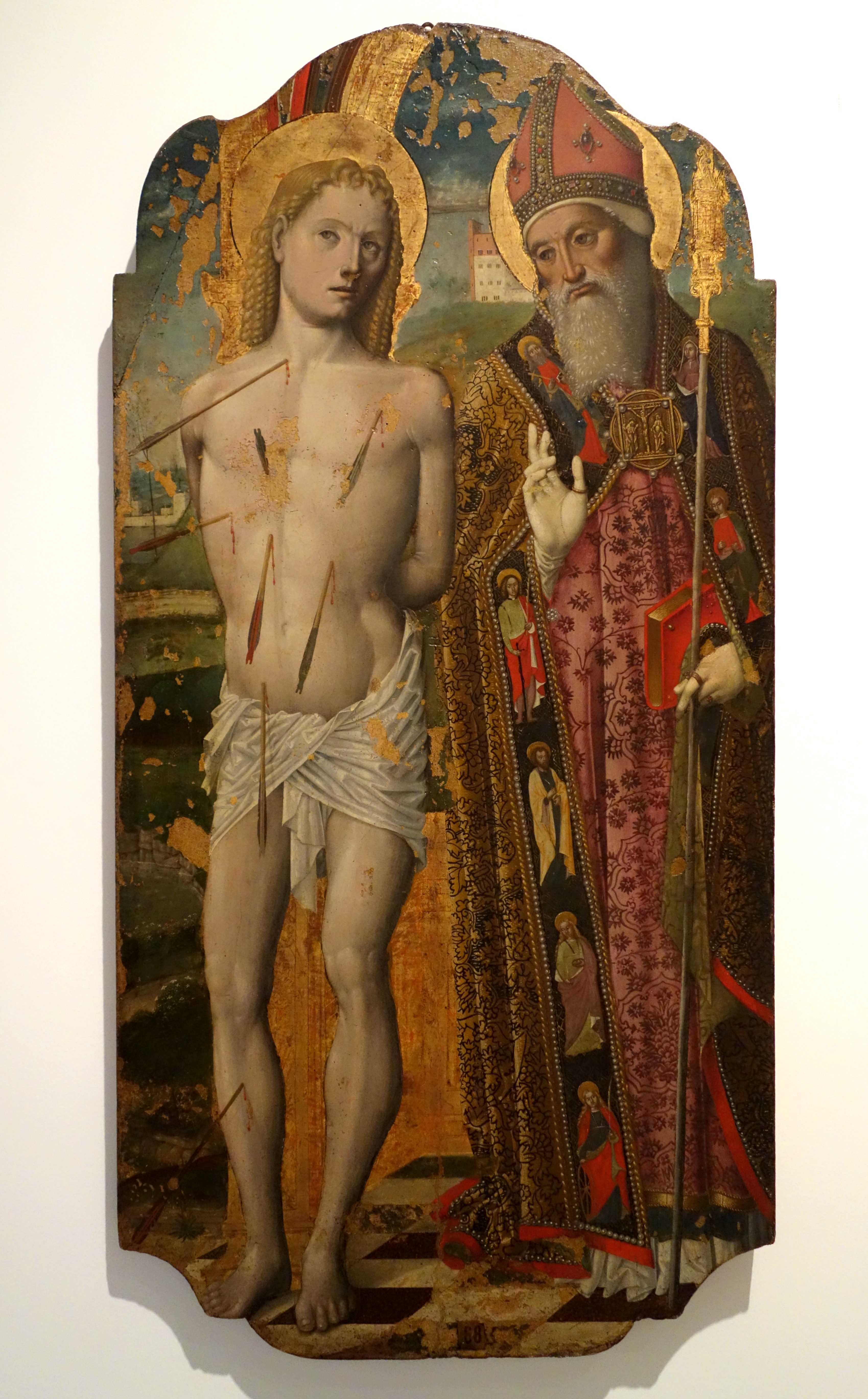 Exhibit in the Accademia Ligustica di Belle Arti, Genoa, Italy. This artwork is old enough so that it is in the public domain.